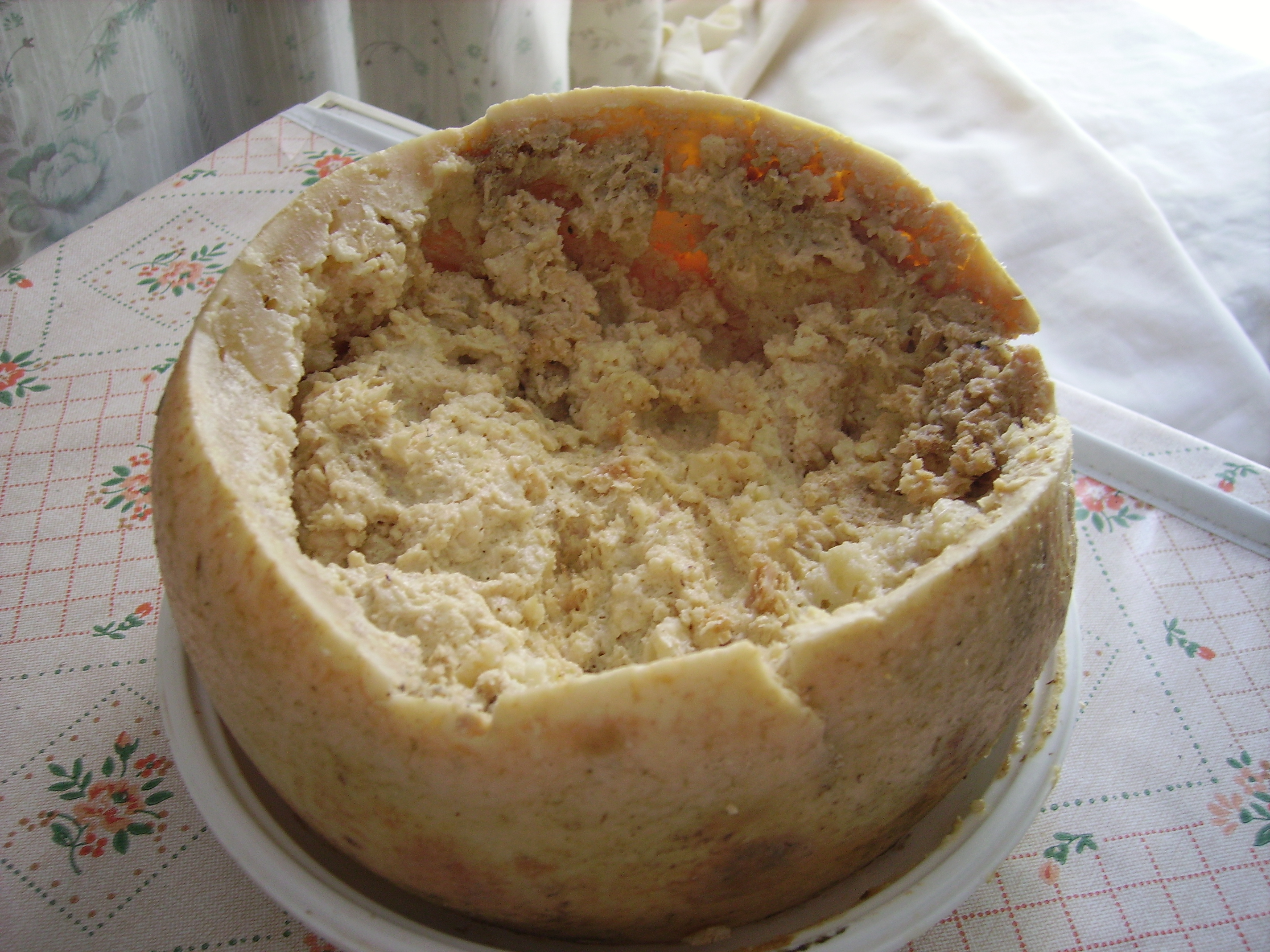 Casu Marzu, a type of cheese.